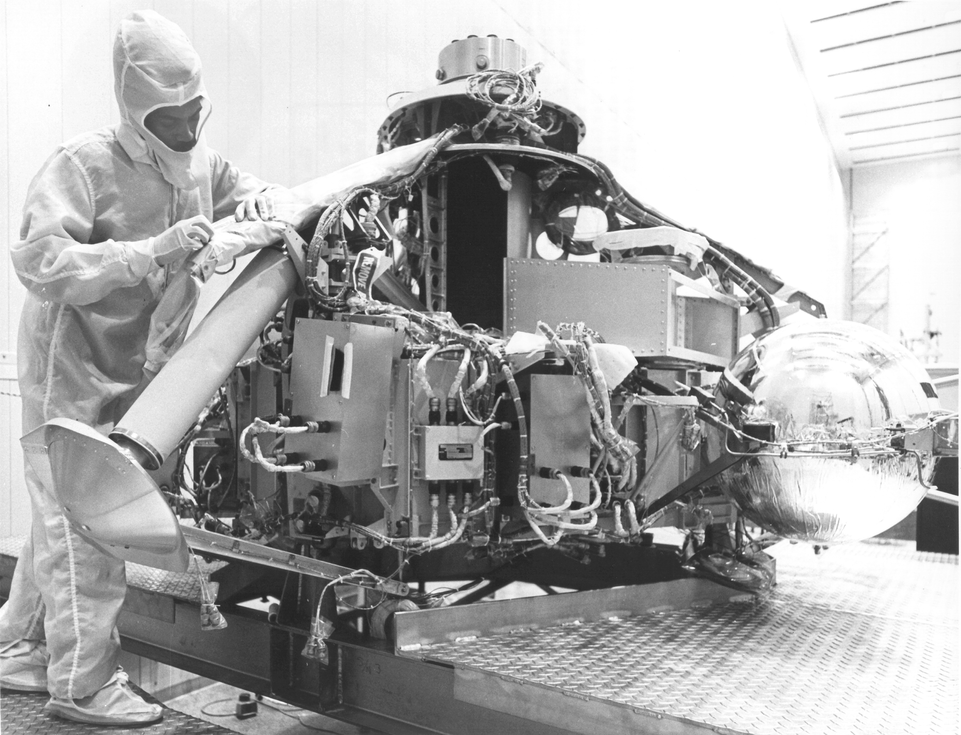 The planetary landing spacecraft Viking, which includes stereo cameras, a weather station, an automated stereo analysis laboratory and a biology instrument that can detect life, is under assembly at Martin Marietta Aerospace near Denver, Colorado. This Viking spacecraft will travel more than 460 million miles from Earth to a soft landing on Mars in 1976 to explore the surface and atmosphere of the red planet. Martin Marietta is prime and integration contractor for the Viking mission to NASA's Langley Research Center, Hampton, Virginia. The lander will be powered by two nuclear generators.